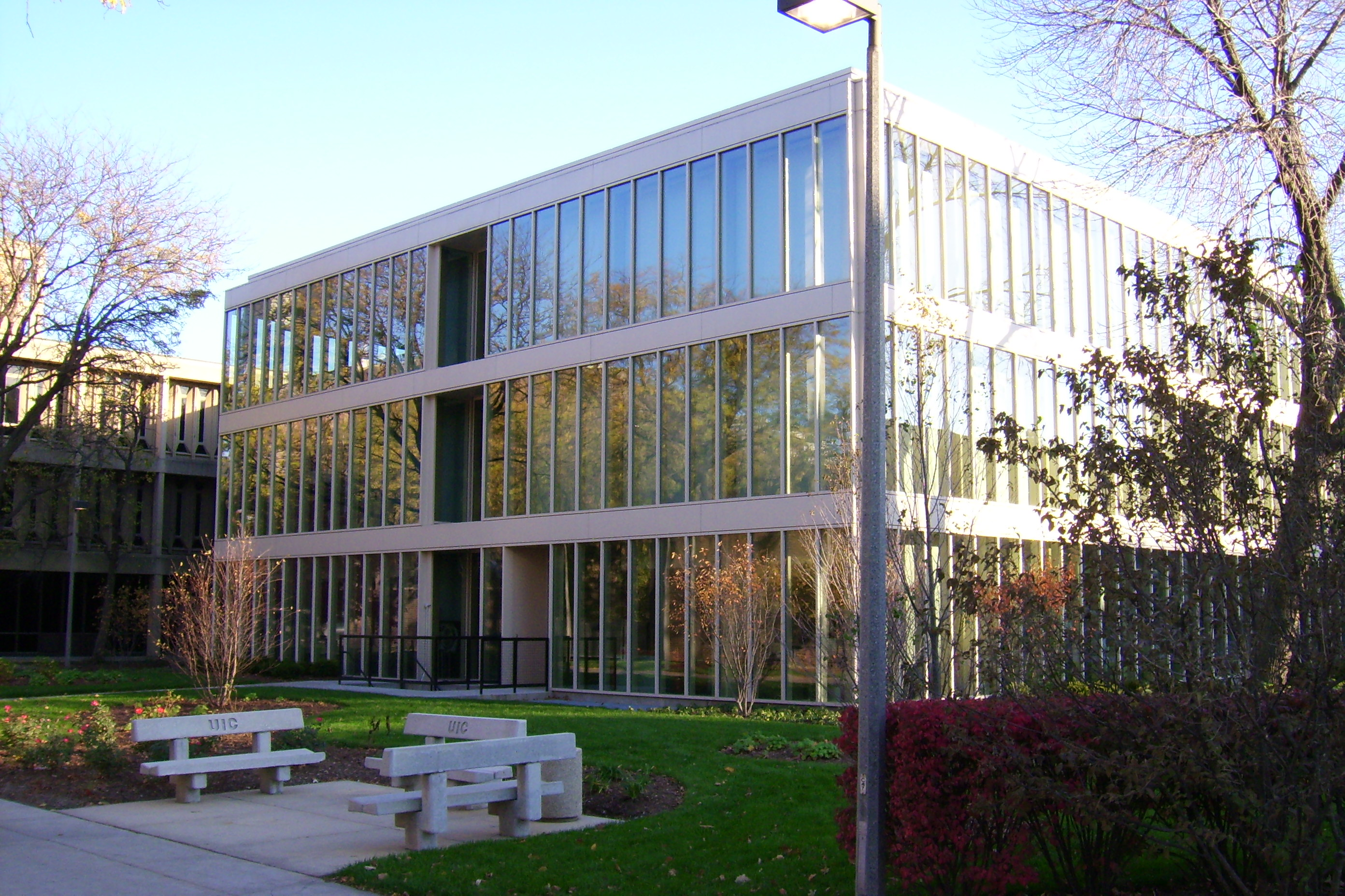 The University of Illinois at Chicago East Campus a new "fresh" look to one of the original buildings